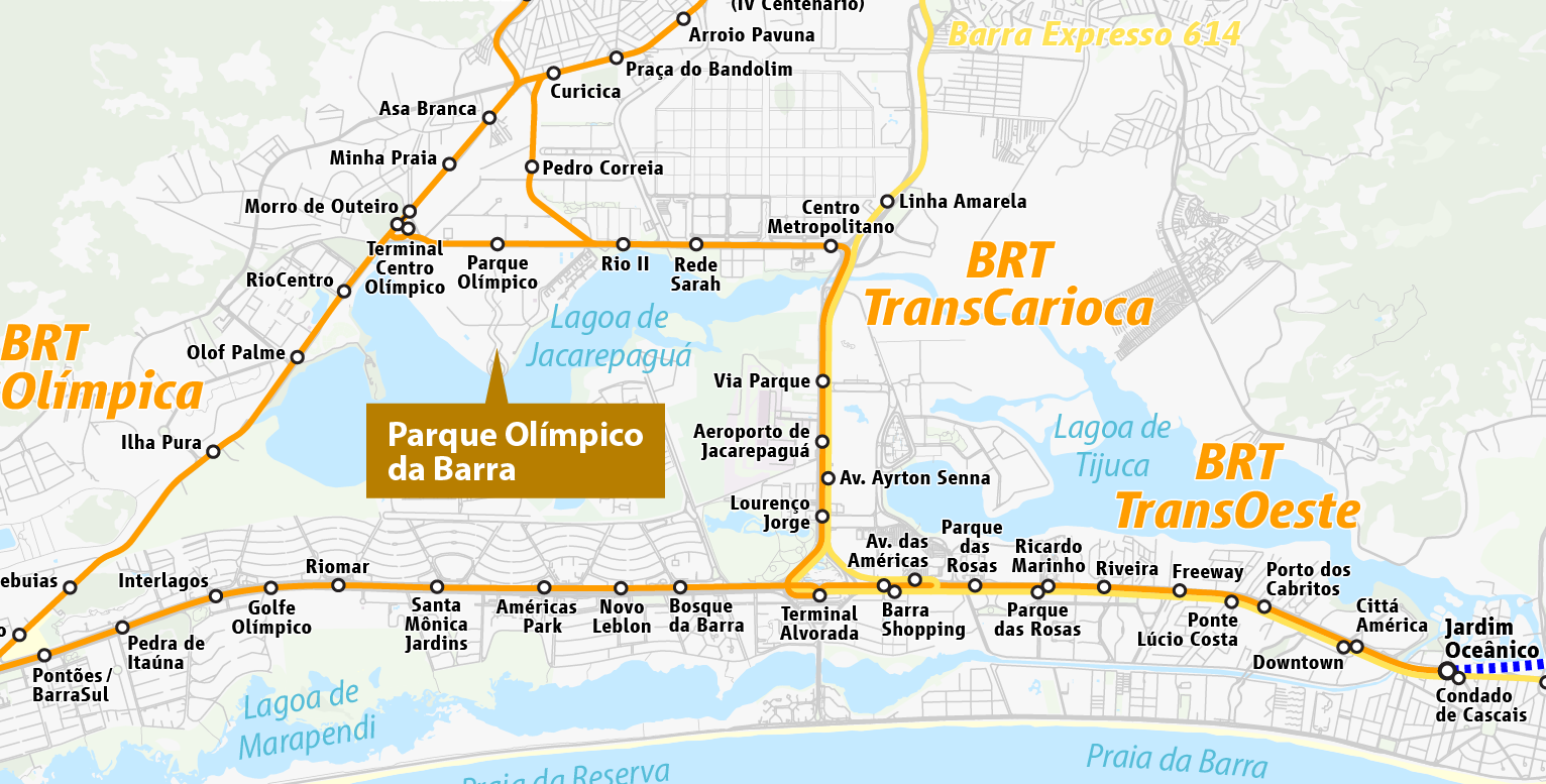 Public transport map of Barra da Tijuca (detail cropped from source)